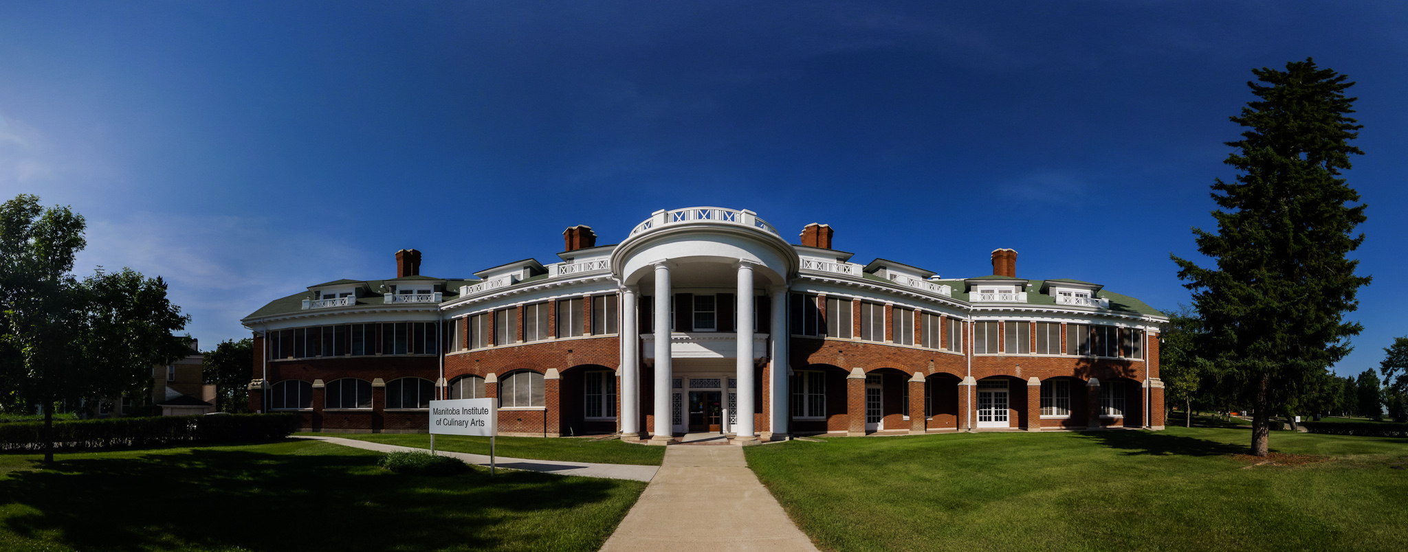 Manitoba Institute of Culinary Arts at Assiniboine Community College, Brandon MB Canada. Crop of equirectangular panorama shot 2009-09-19 and assembled with vanilla Hugin-Nona-Enblend toolchain. Built in 1923 as the Nurses' Residence of the Brandon Mental Health Centre.